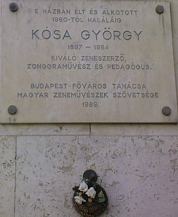 György Kósa commemorative plaque in Budapest District XII, Maros Street No 28